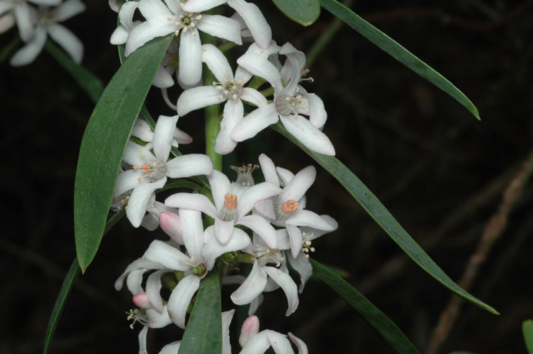 Philotheca conduplicata (previously known as Philotheca myoporoides subsp. conduplicata) in the Australian National Botanic Gardens, A.C.T.